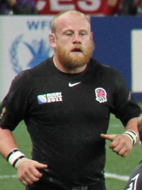 English rugby union player Dan Cole during 2011 Rugby World Cup match against Argentina.